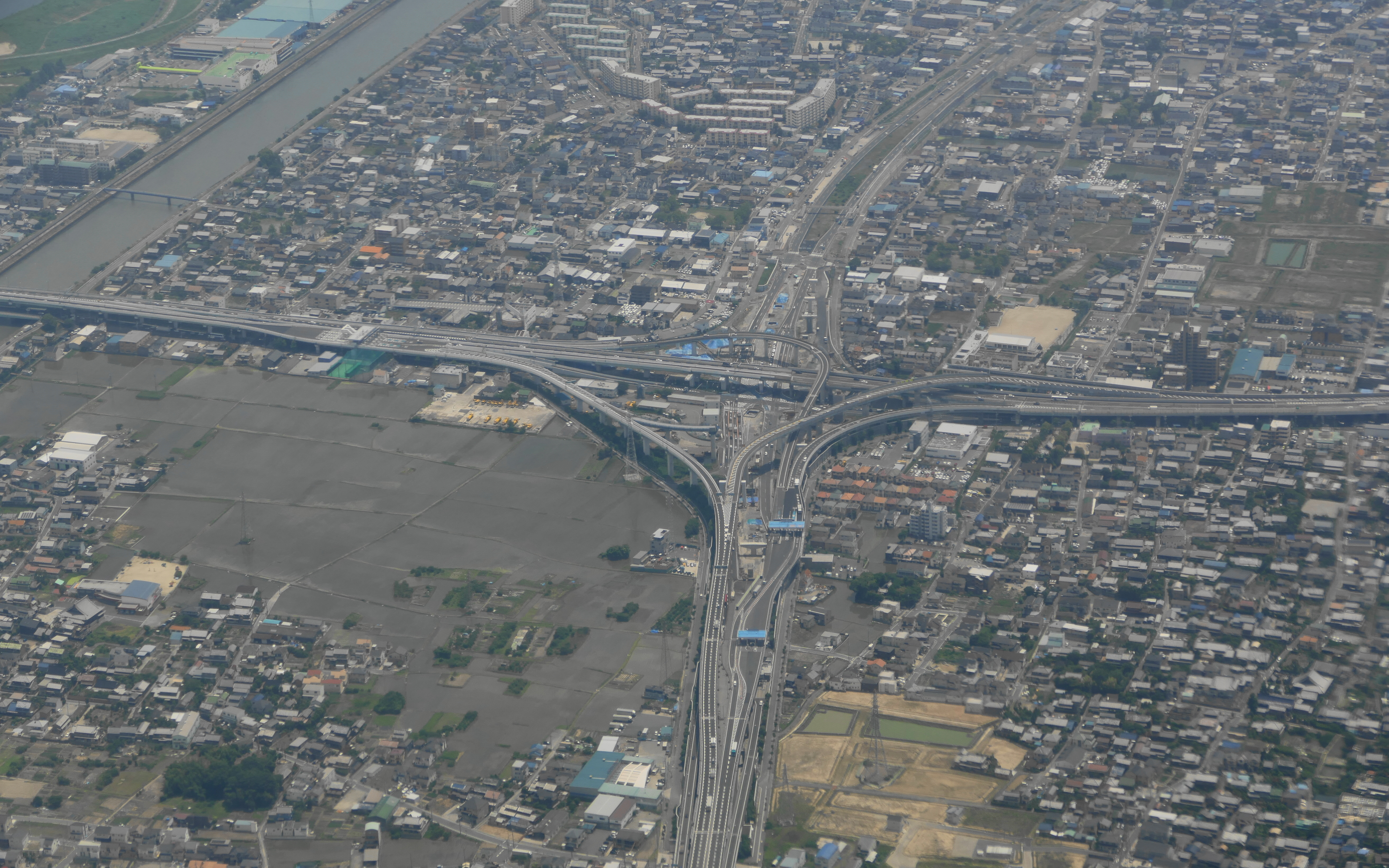 Nagoya-nishi Junction from Sky,Aichi prefecture,Japan